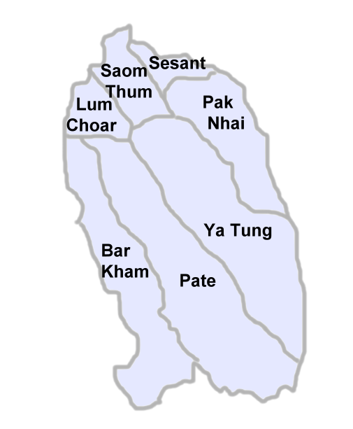 Map of Ou Ya Dav District, Cambodia. Based on